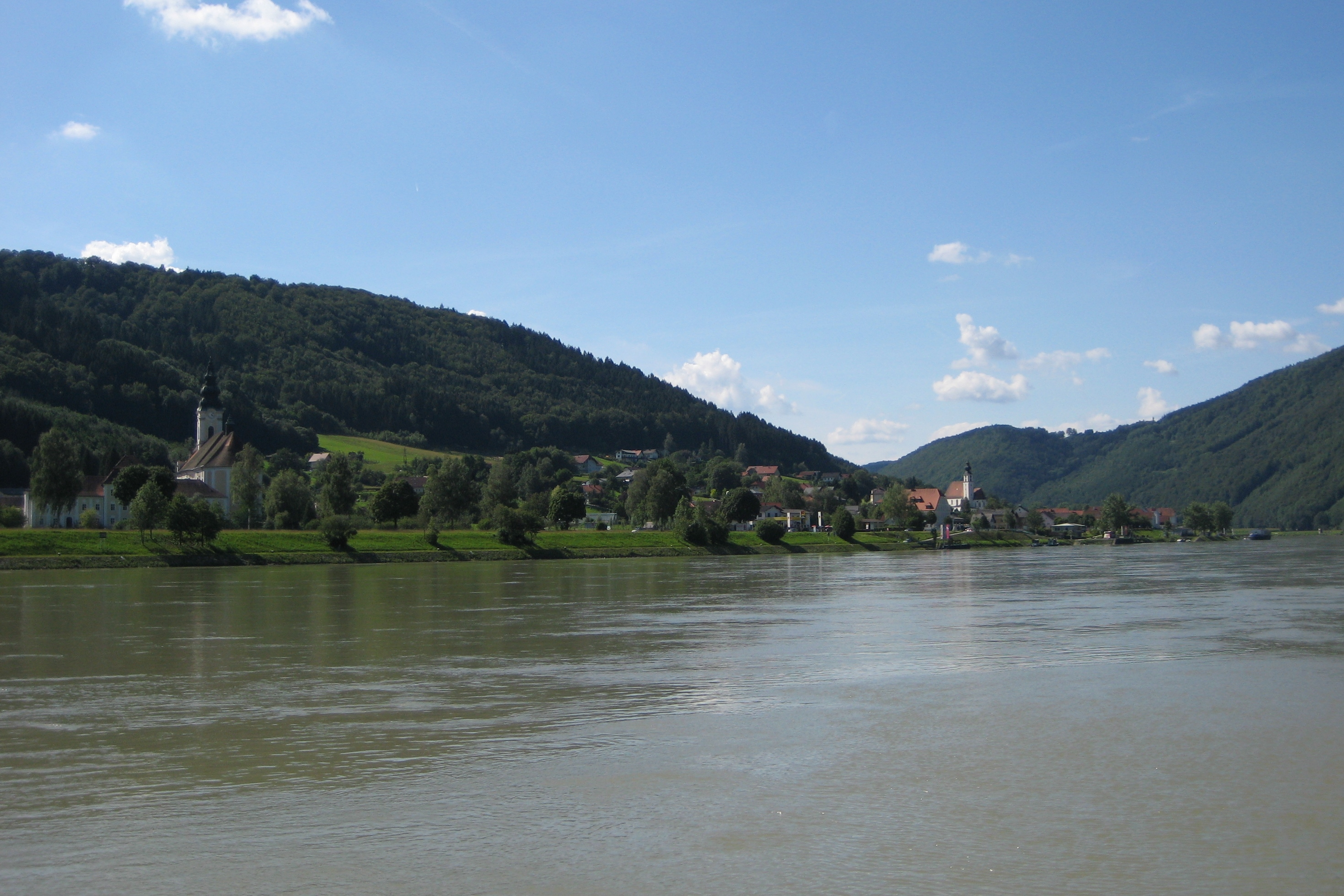 Engelhartszell on the Danube